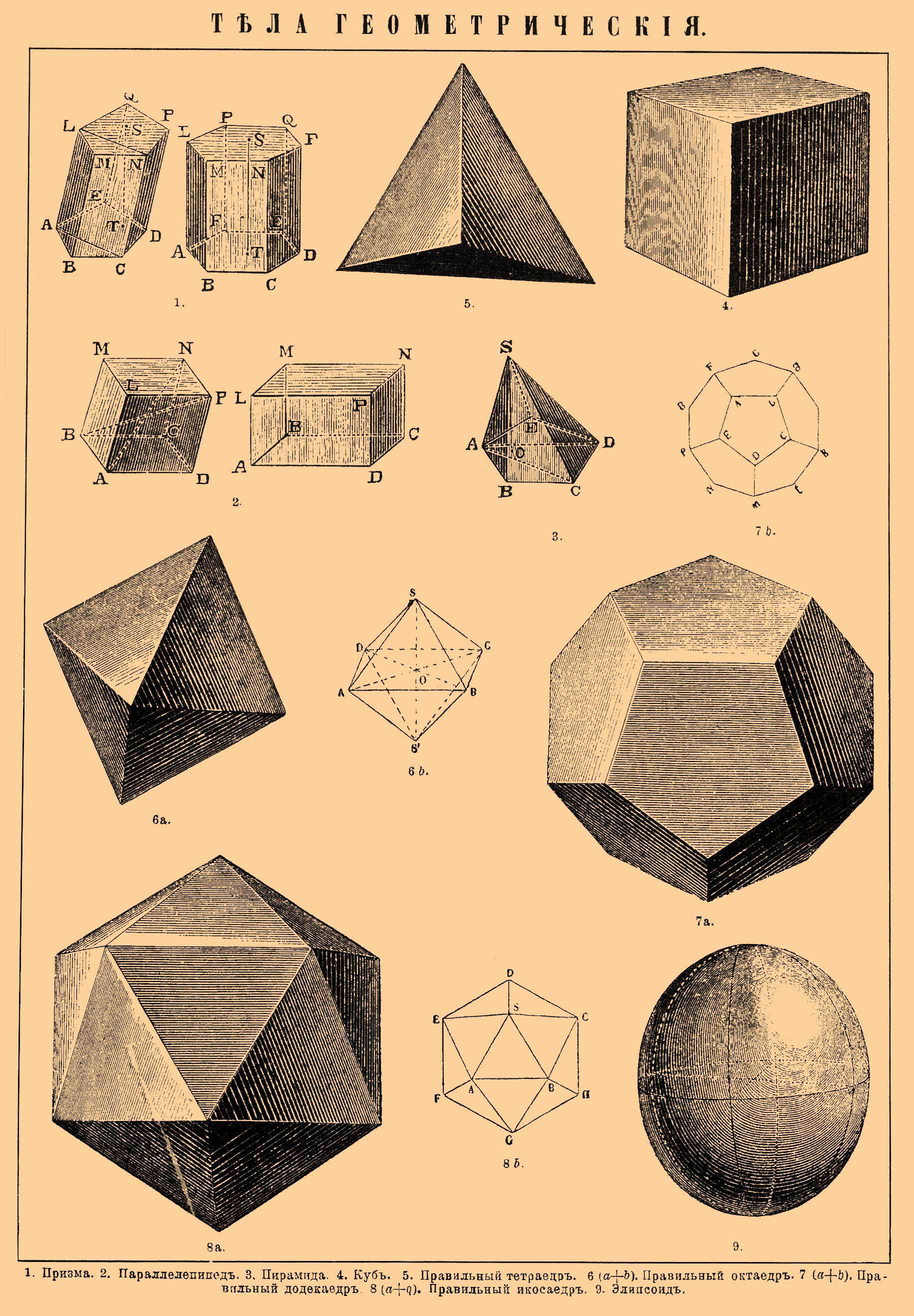 Illustration from Brockhaus and Efron Encyclopedic Dictionary(1890—1907)